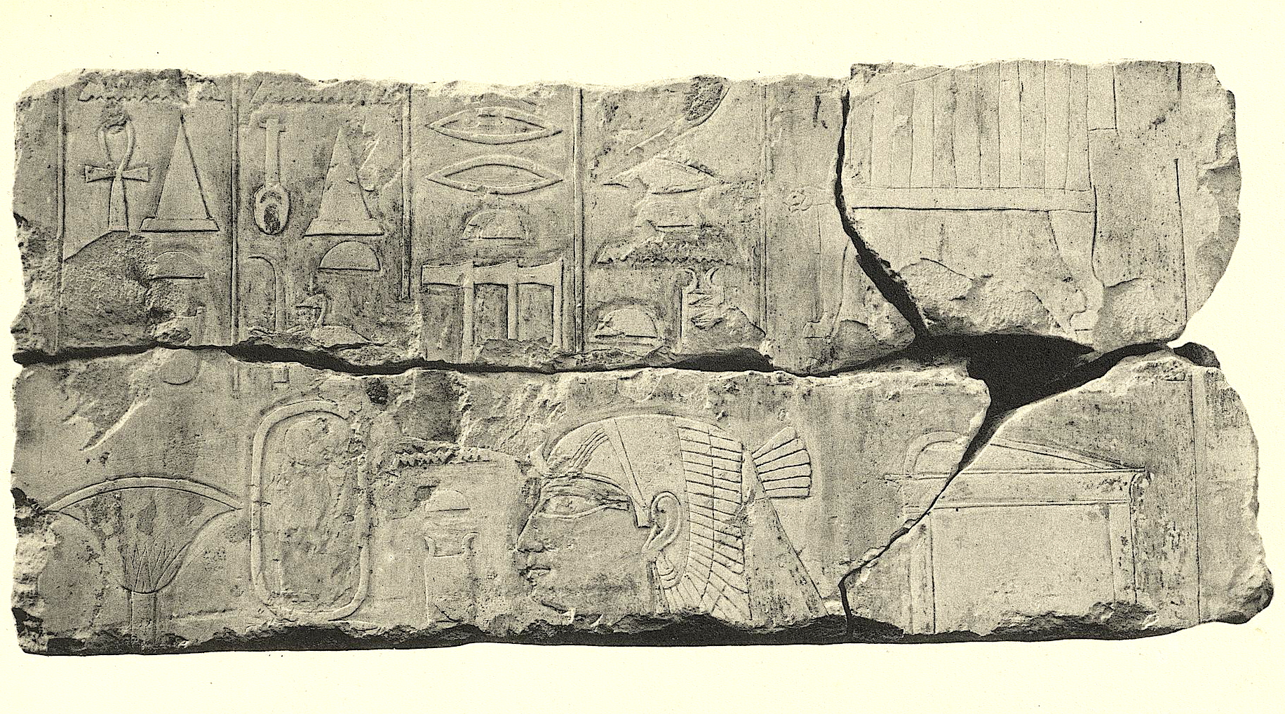 Relief fragment from the mortuary temple of the pyramid of Neith